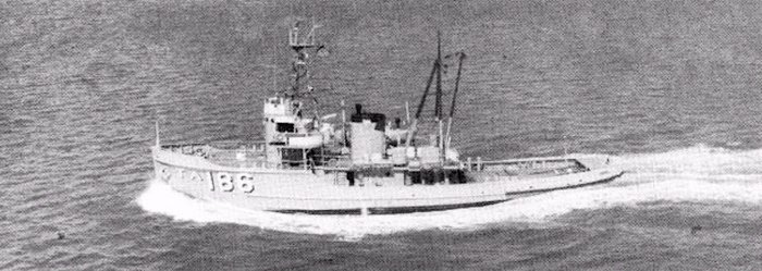 USS Cahokia (ATA-186) underway, date and location unknown. US Navy photo from "All Hands" magazine, February 1966.